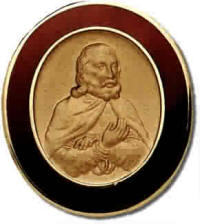 Jewel of the Degree of Chevalier, Order of DeMolay